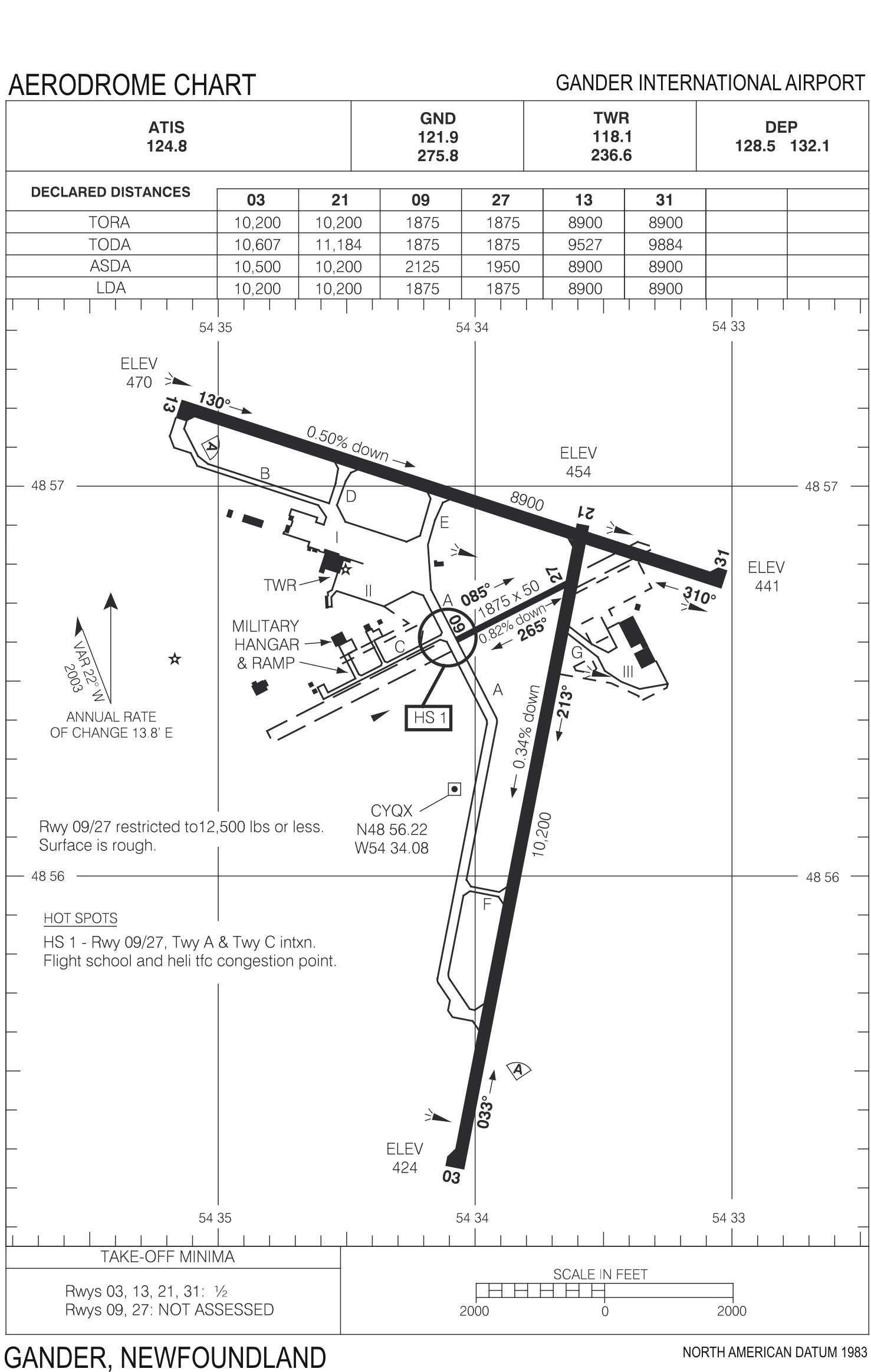 Aerodrome chart, Gander International Airport